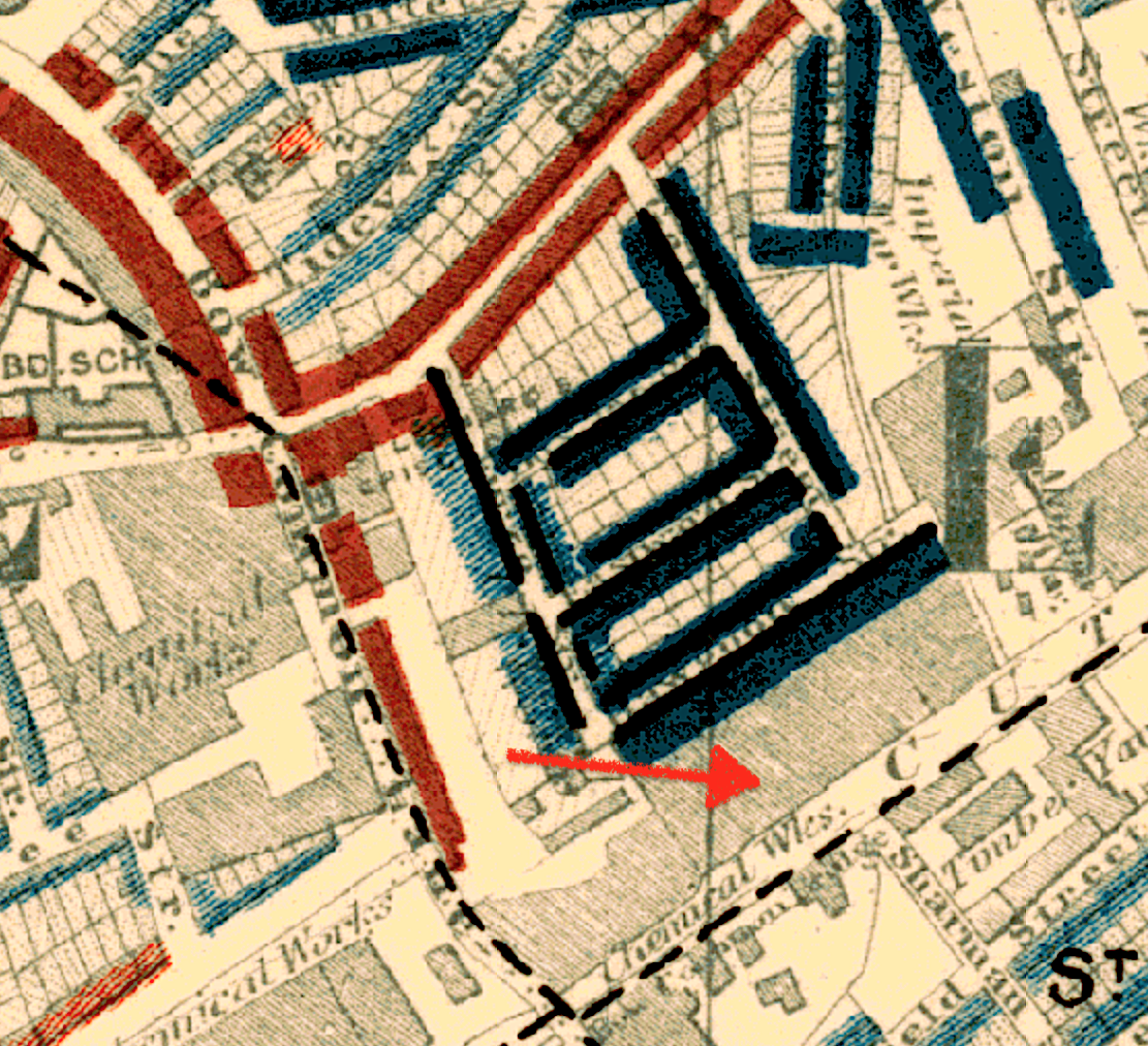 The slum district called the Fenian Barracks by police (marked black) was perhaps the most dangerous rookery in late Victorian London. The red arrow shows the fat refinery alongside Limehouse Cut that attracted the even more terrifying rats.